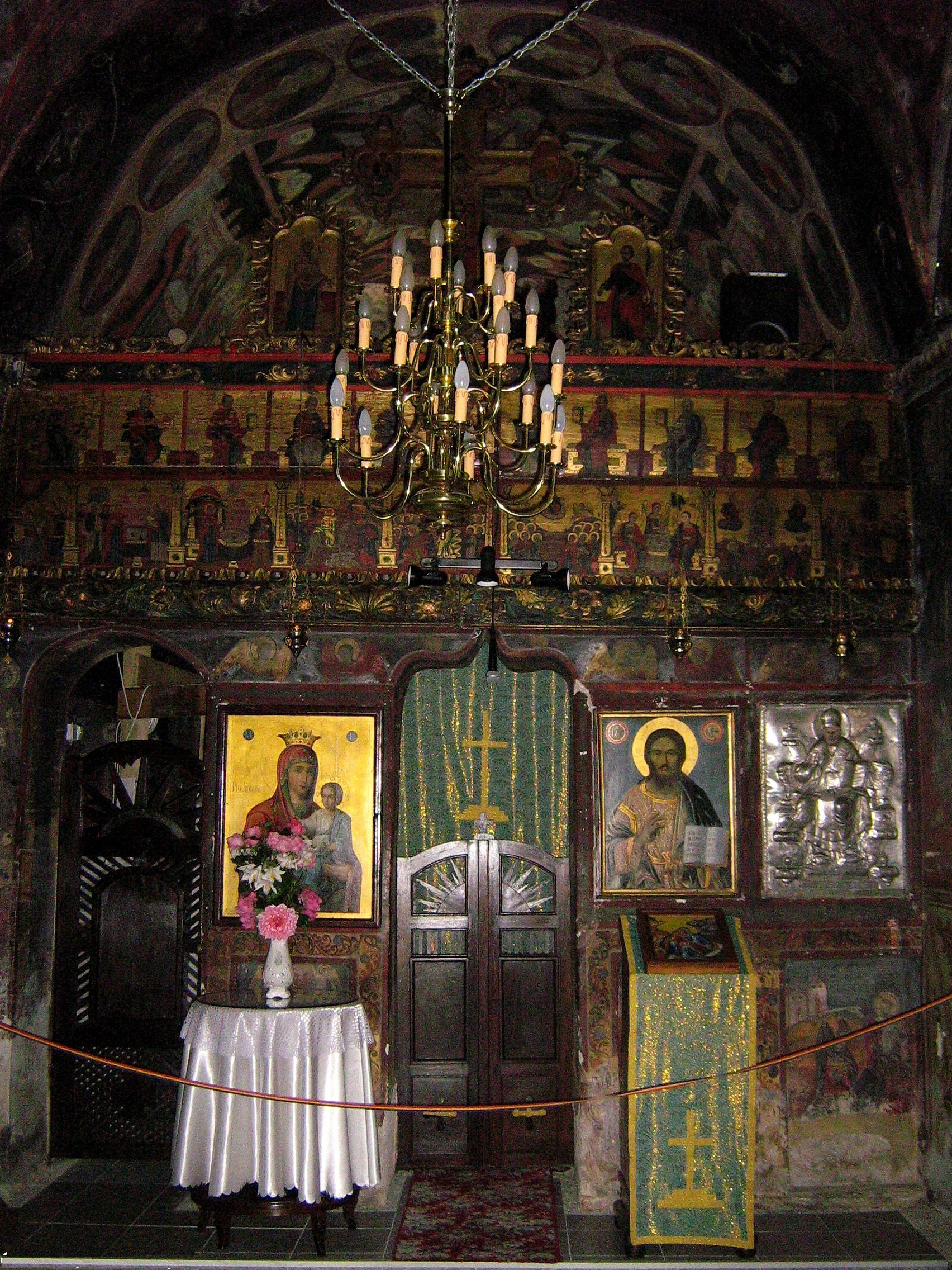 A small, secluded eighteenth century orthodox monastery (now a nunnery), it is the place to go if you are looking for an old church where you can be alone with the icons and the cross - a place for a little solitude and meditation. The mural painting in the charming little church is not so well preserved, but its patina can make you feel like you are in a time long, long ago. The nice nun at the door graciously allowed me to take pictures inside the church.